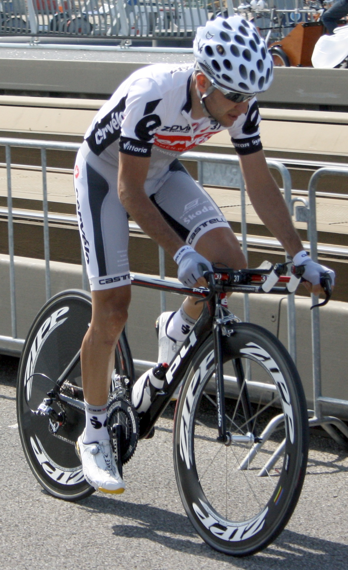 Carlos Sastre training for the prologue of the 2010 Tour de France in Rotterdam